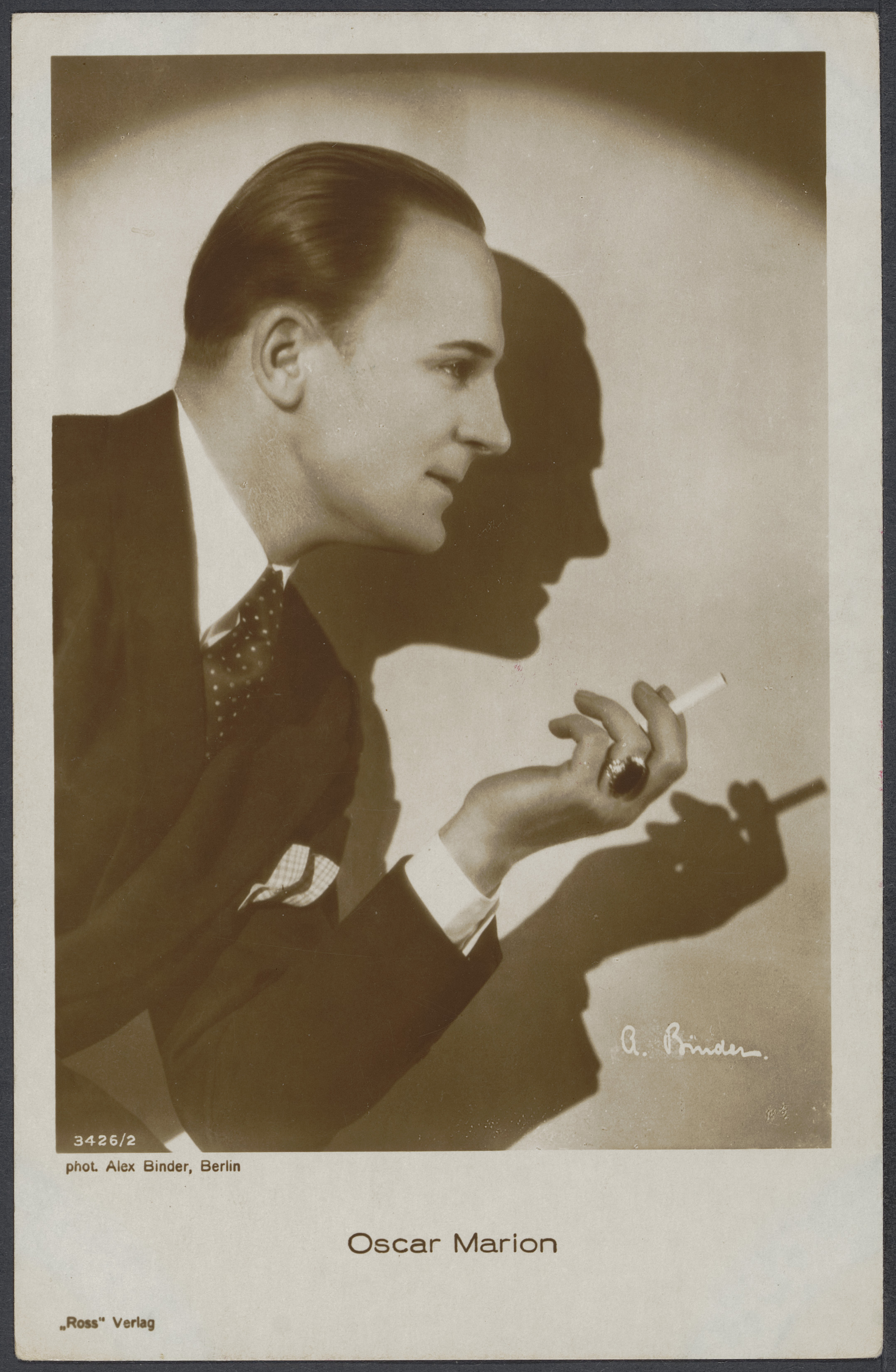 Oskar Marion (also Oscar Marion, 1894-1986), Austrian actor and filmproducer. 14 x 9 cm. Ross Verlag 3426/2